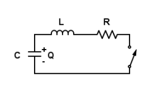 Circuit 1.